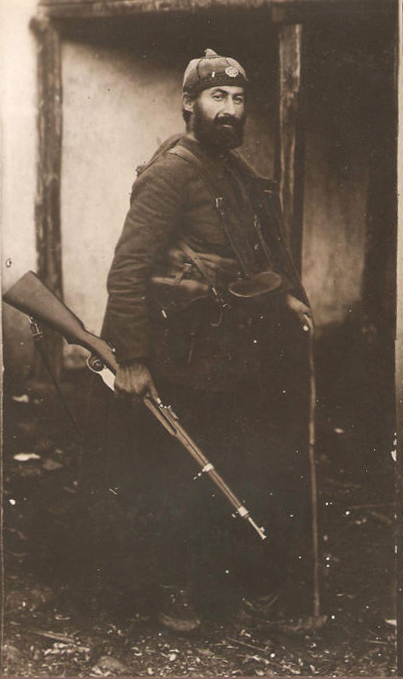 Portrait of Bulgarian revolutionary from IMRO Petar Kostov